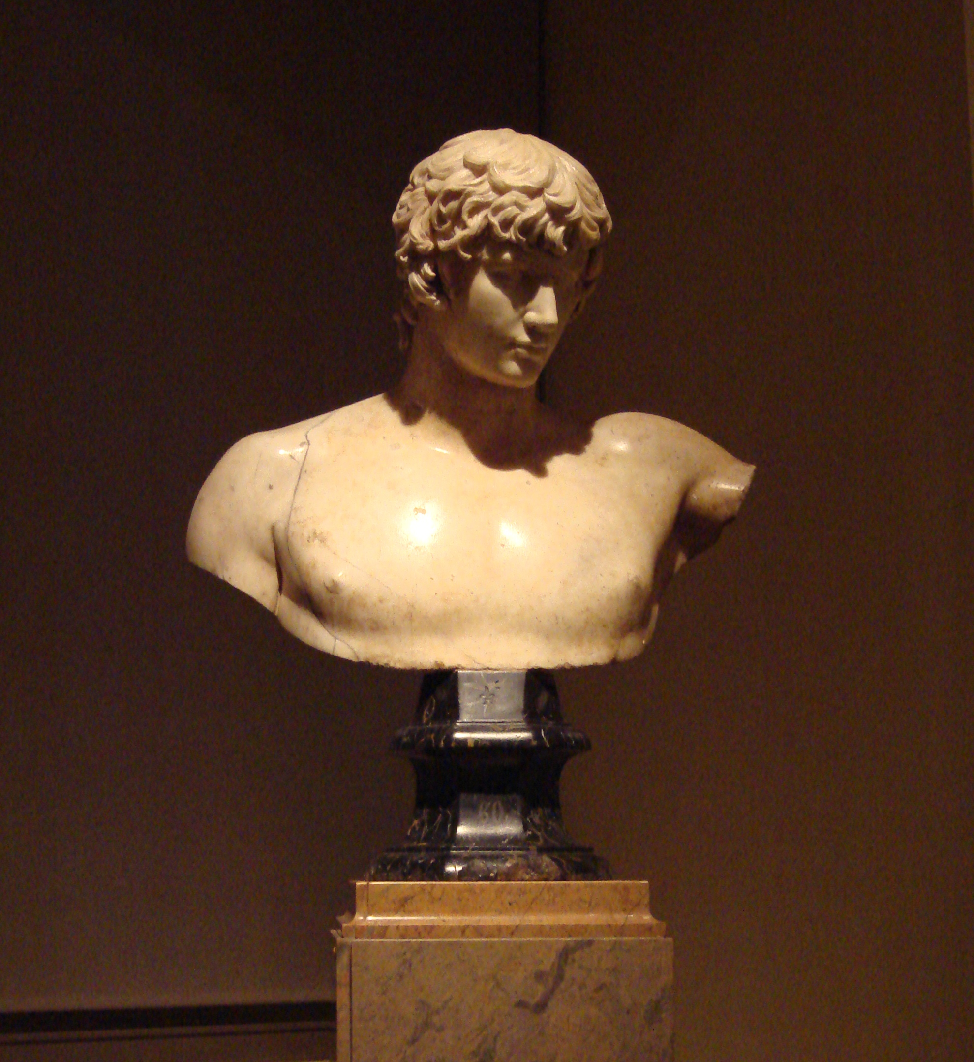 Bust of Antinous sculpted in white marble from Carrara around 131–132 CE.